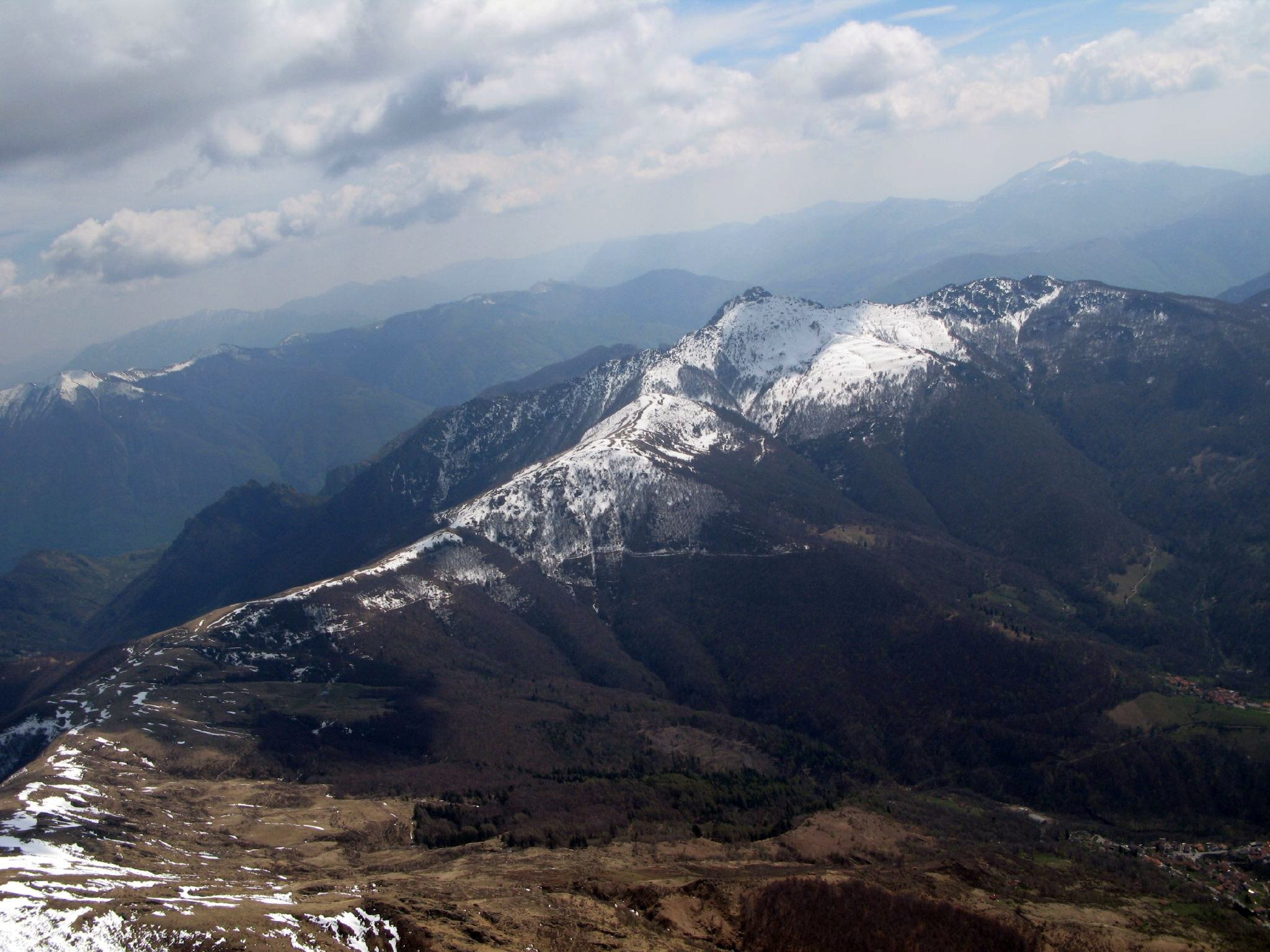 Fojorina peak with the village of Bogno below in Val'Colla, Ticino, Switzerland